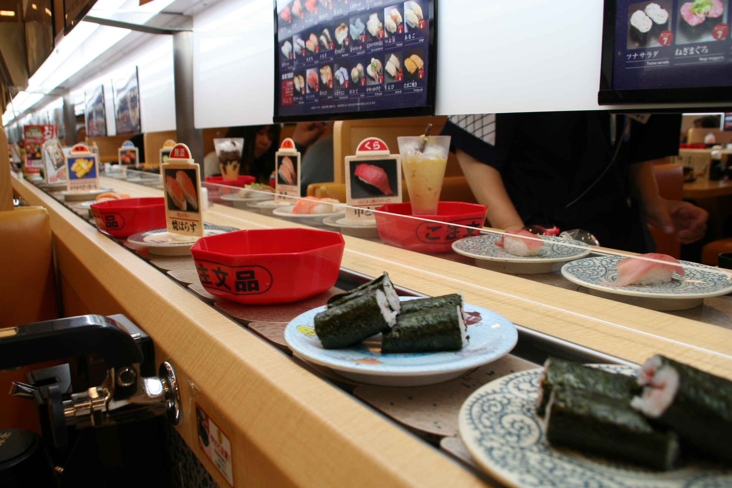 sushi conveyor chain by Tsubakimoto Chain Co.